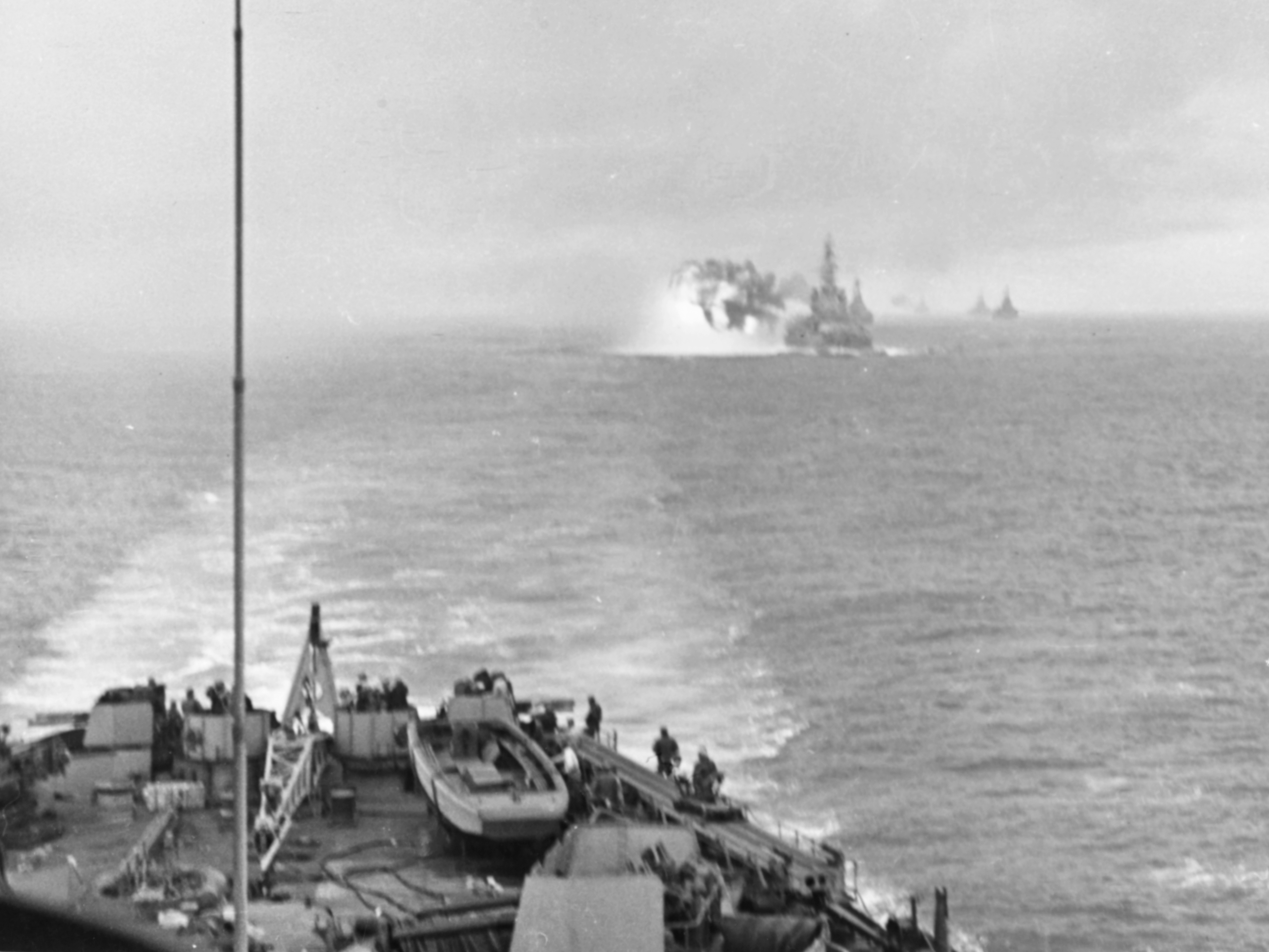 The U.S. Navy battleship USS Massachusetts (BB-59) opens fire on Kaimaishi, Japan, in the last battleship bombardment of World War II, 9 August 1945.